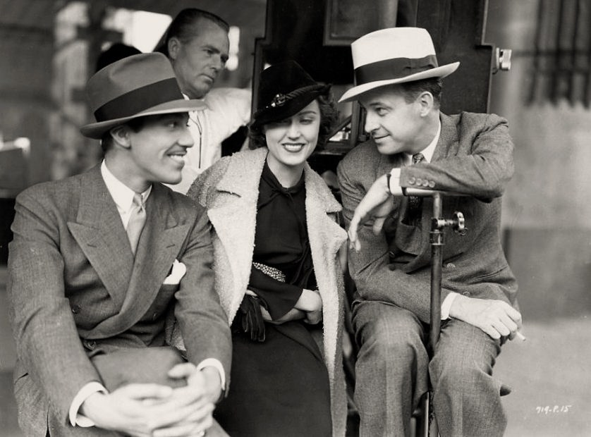 L. to R. : Cesar Romero, Fay Wray, director Richard Thorpe, and cinematographer George Robinson (behind them) on the set of Cheating Cheaters - publicity still